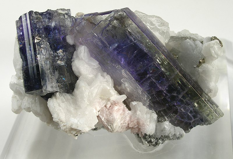 Calcite, Zoisite Locality: Merelani Hills (Mererani), Lelatema Mts, Arusha Region, Tanzania (Locality at ) Size: small cabinet, 6.5 x 5.7 x 4.2 cm Tanzanite on Calcite One rarely sees matrix tanzanites! This one features an approximately 6 cm crystal with natural blue-toned color, preched in calcite! Adjacent is a broken, but colorful, tanzanite crystal to the left tha tbalances the piece nicely and adds visual color splash. The main crystal is a little rough at the termination but it IS complete, just contacted. The calcite contrast is unusual and enhances the color. Very 3-dimensional, interesting specimen. Comes with custom base.